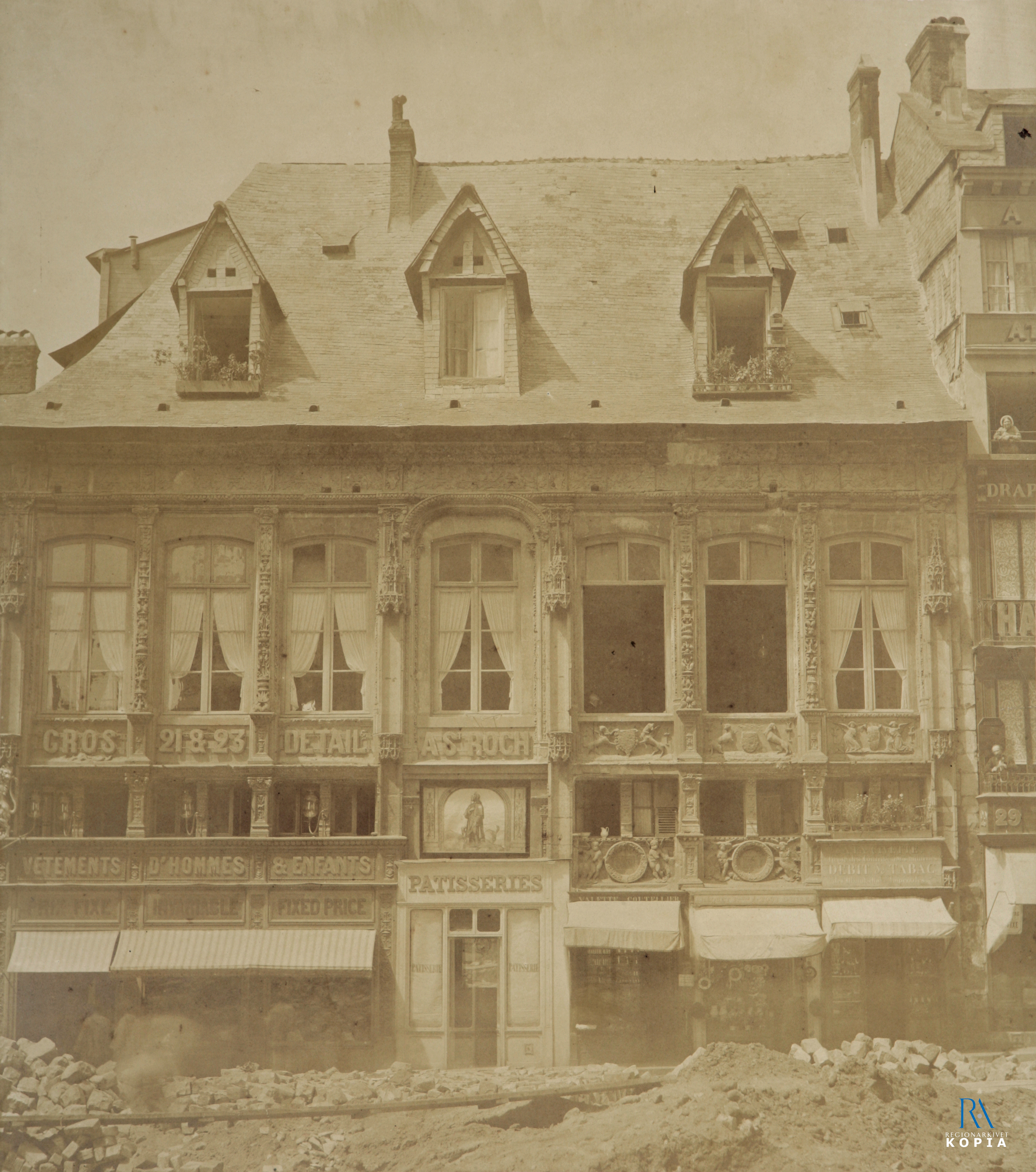 Rouen (house and roadworks). Illegible blind stamp. Unknown date, but purchased before the collector’s death in 1915.